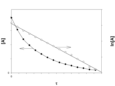 First Order